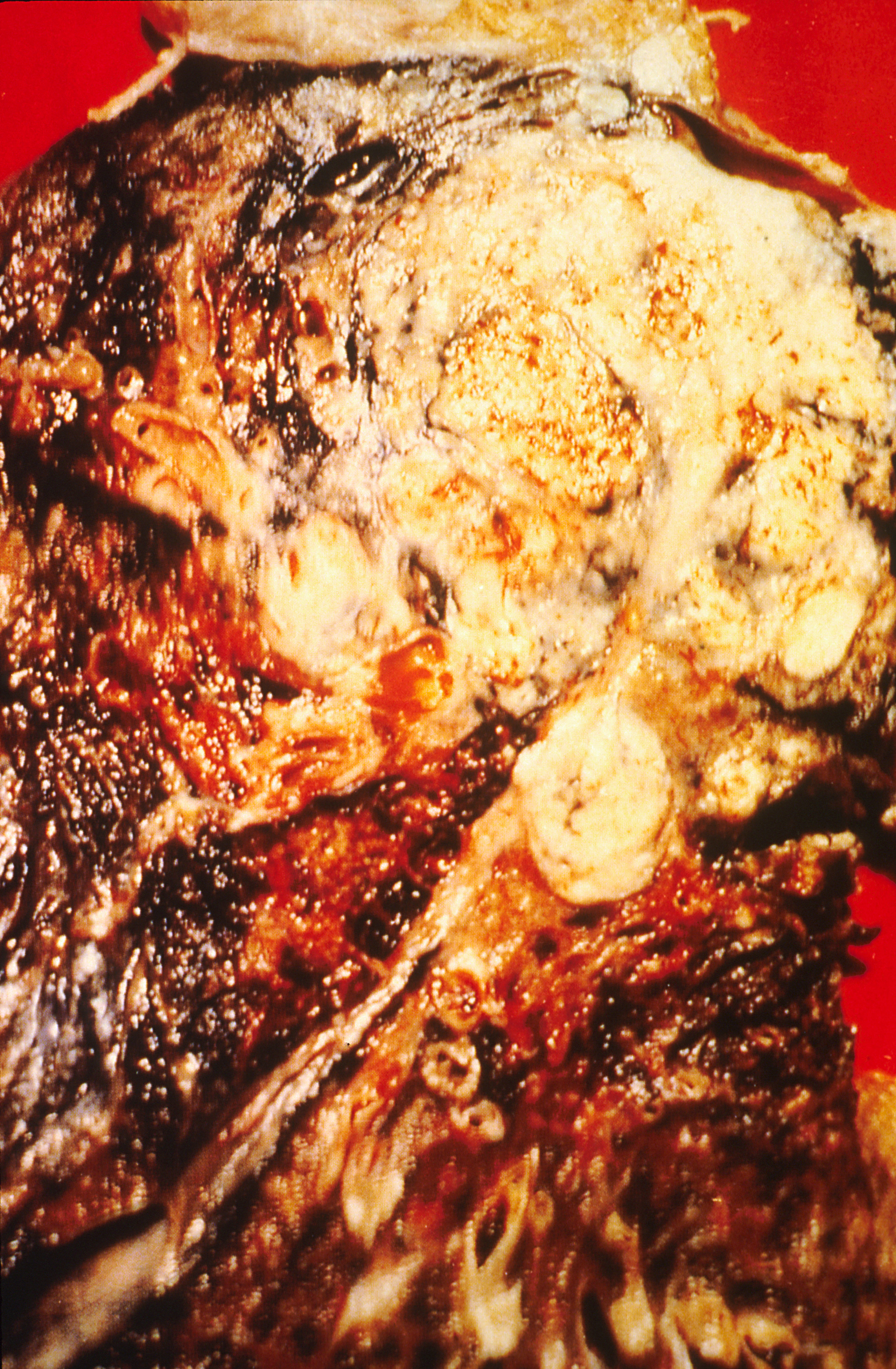 Title Pathology of the Lung (Cancer) Description Cross section of a human lung. The white area in the upper lobe is cancer, the black areas indicate the patient was a smoker. Topics/Categories Anatomy -- Respiratory/Thoracic System Cancer Types -- Lung Cancer Cells or Tissue -- Abnormal Cells or Tissue Type Color, Photo Source National Cancer Institute